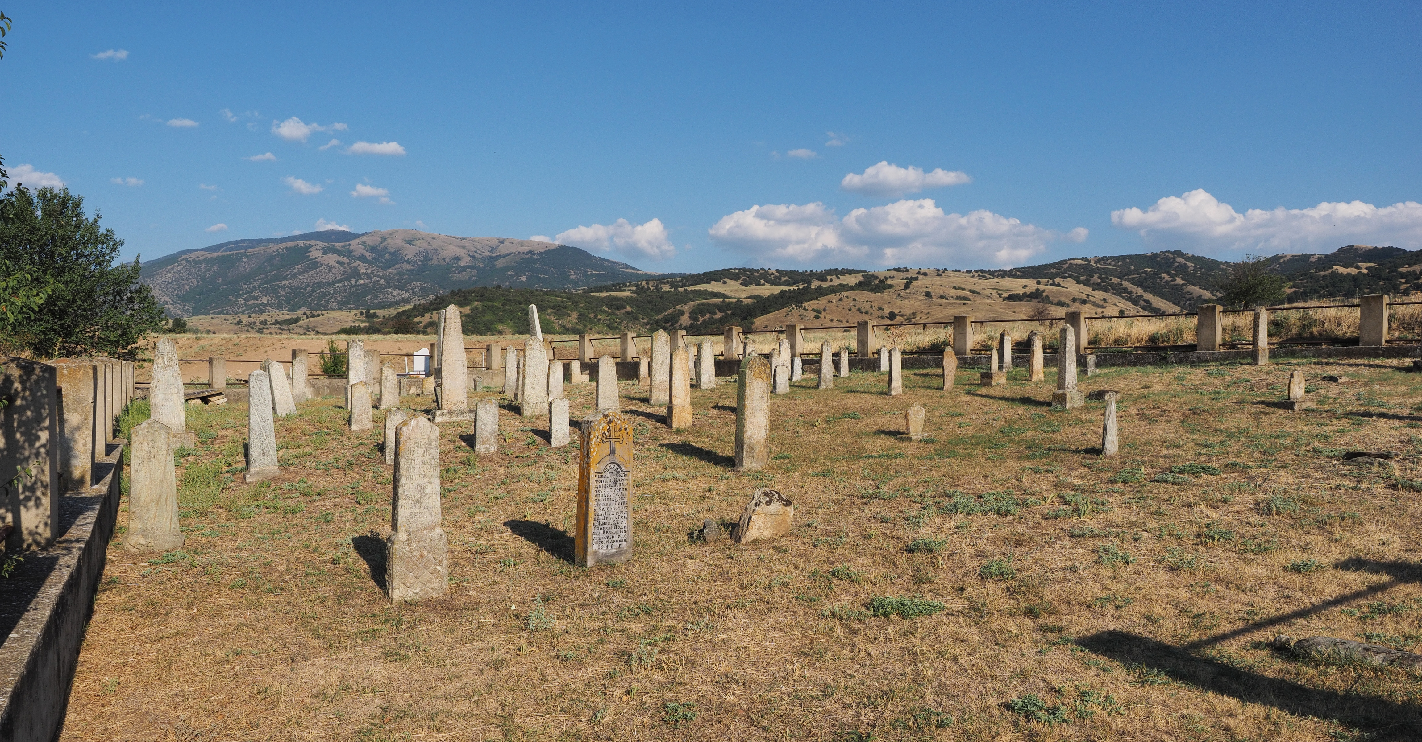 Serbian military cemetery in village Dobroveni, Republic of Macedonia. Thessaloniki front, 1 WW and Balkan war